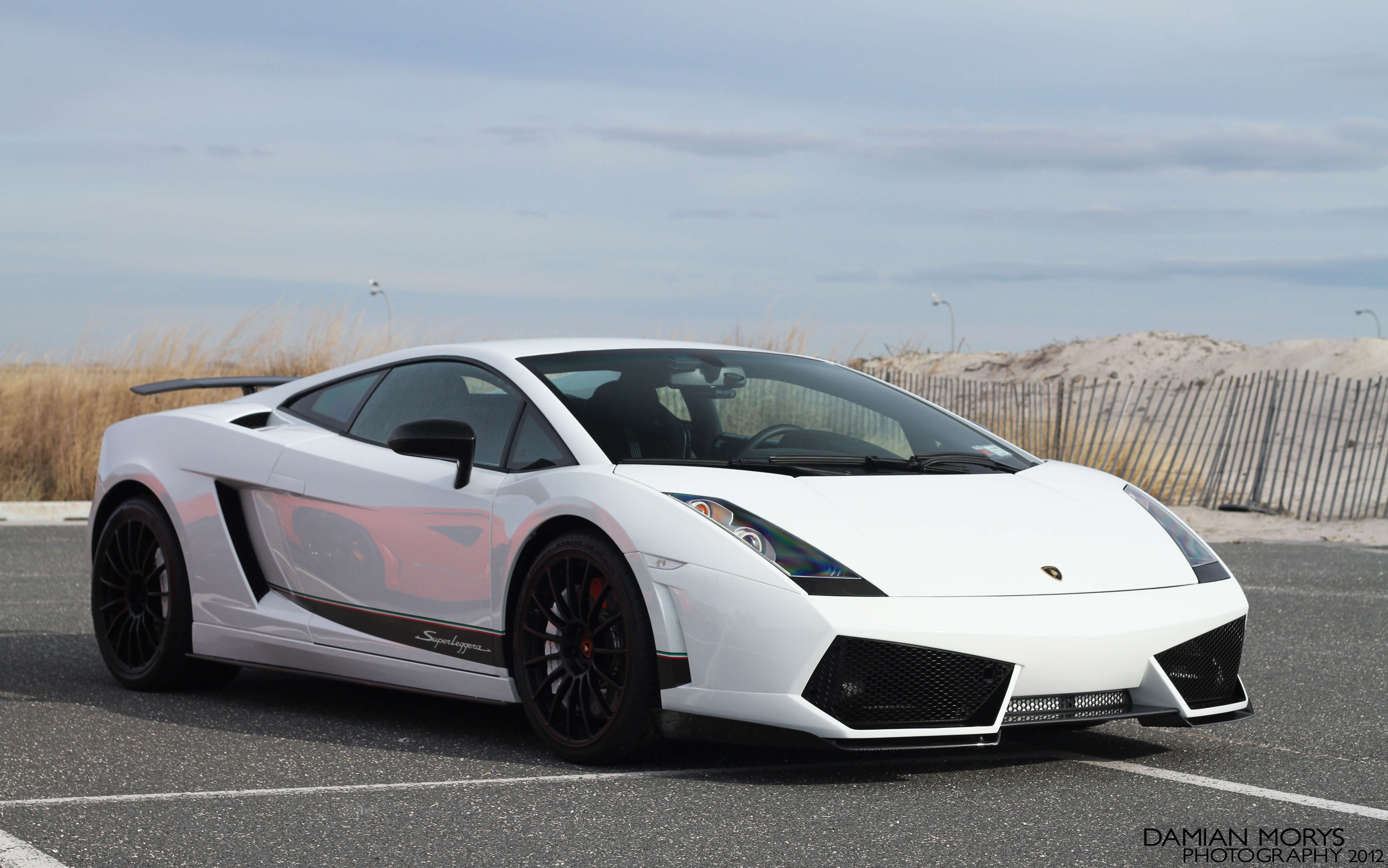 Has some interesting mods done to it.